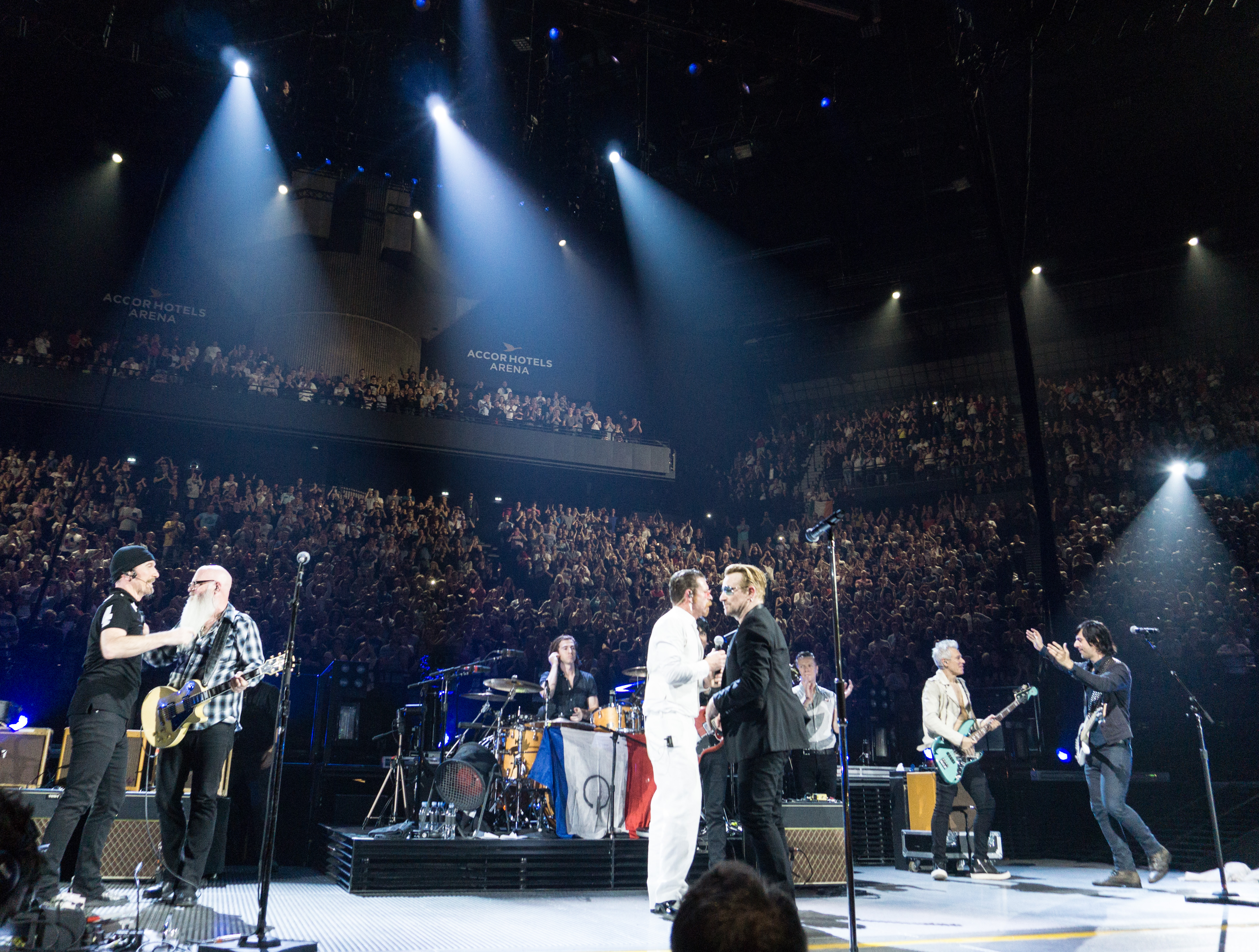 Irish rock band U2 are joined on-stage by American rock band Eagles of Death Metal during a show on U2's Innocence + Experience Tour at Accorhotels Arena in Paris, France on December 7, 2015